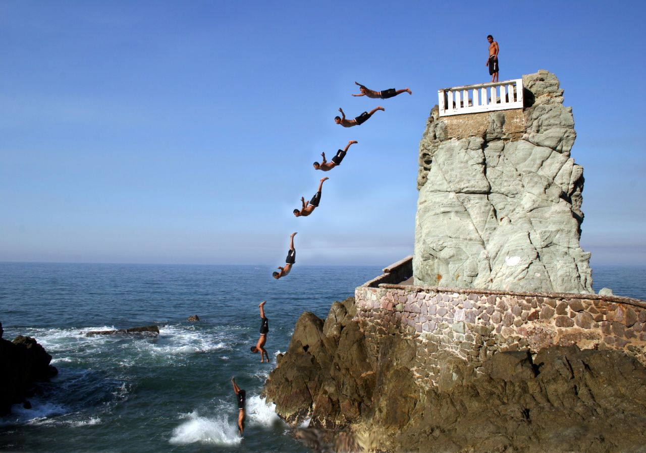 Mazatlan Diver Sequence. The rocky pool this young man dives into, is said to be rather shallow.